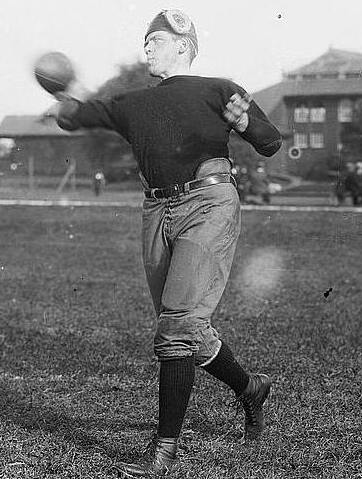 Image of Sam Felton